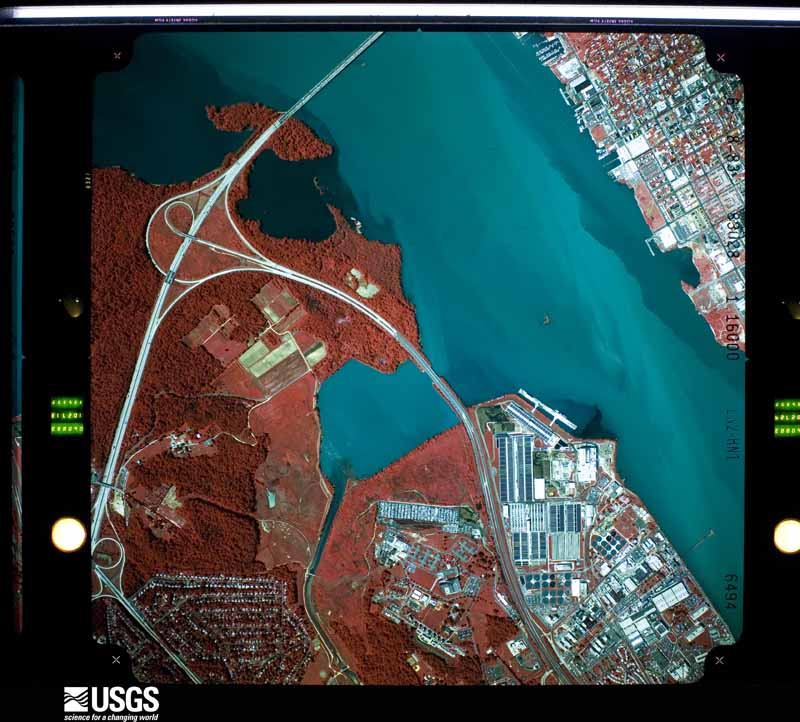 Aerial photograph of Potomac River at Oxon Cove, District of Columbia, USA. USGS Entity ID: ARL830280596494; Photo ID: L830280596494